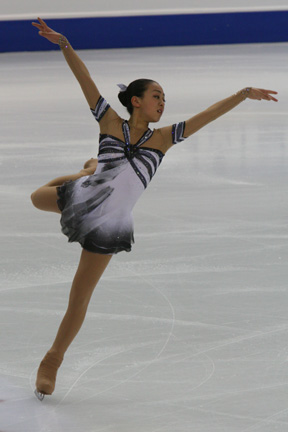 Mao Asada during her long program at the 2007-2008 Grand Prix Final.